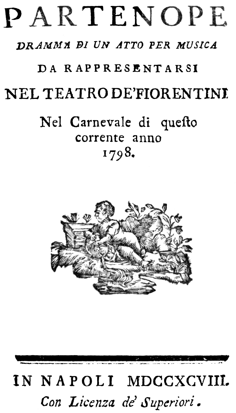 Antonio Peregrino Benelli - Partenope - titlepage of the libretto - Naples 1798